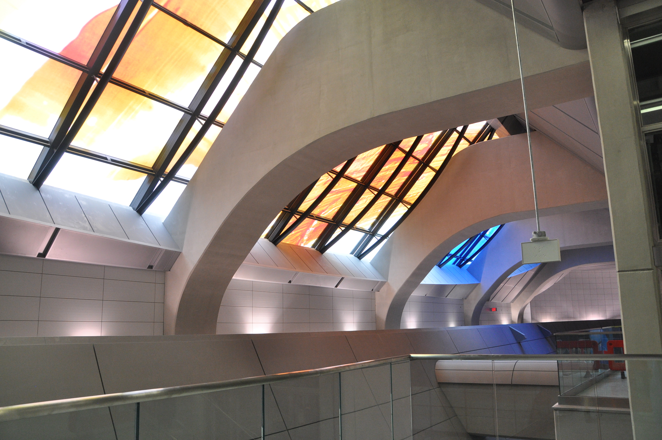 Skylight above subway platform at Highway 407 station